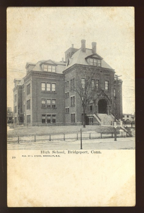 Postcard: Bridgeport High School (now Central High School) in Bridgeport, Connecticut